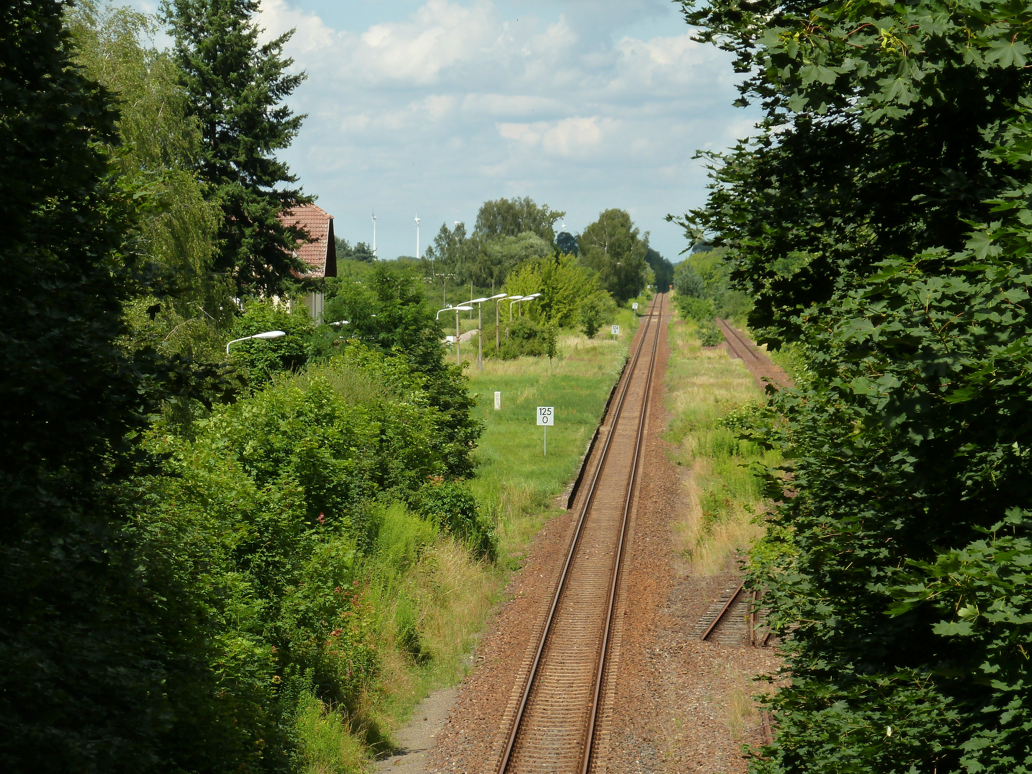 Booßen train station view from bridge south of station.